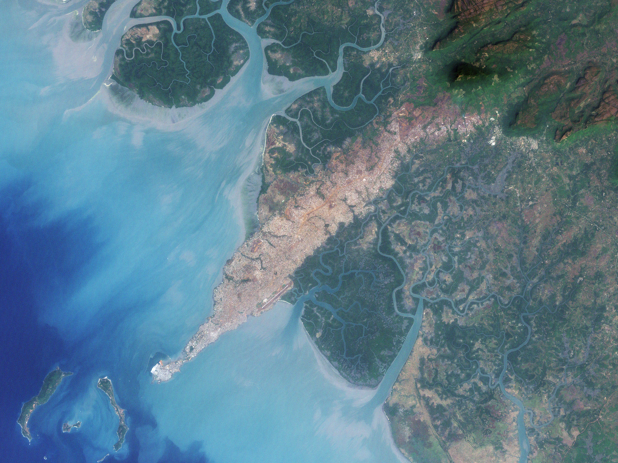 The city of Conakry, Guinea, originated on Tombo Island and spread up the Kaloum Peninsula, sandwiched between mangrove swamps. In the 1960s, the city had a population of fewer than 40,000; in 2006, it had a population of nearly 2 million. These natural-color images, acquired by NASA’s Landsat satellites, show the city’s dramatic growth from 1986 to 2000. Land and water features look similar to how they would look in a photograph by a digital camera. Water ranges in color from deep to pale blue, vegetation appears dark green, and bare ground and urbanized areas range in color from gray to beige to reddish-brown.